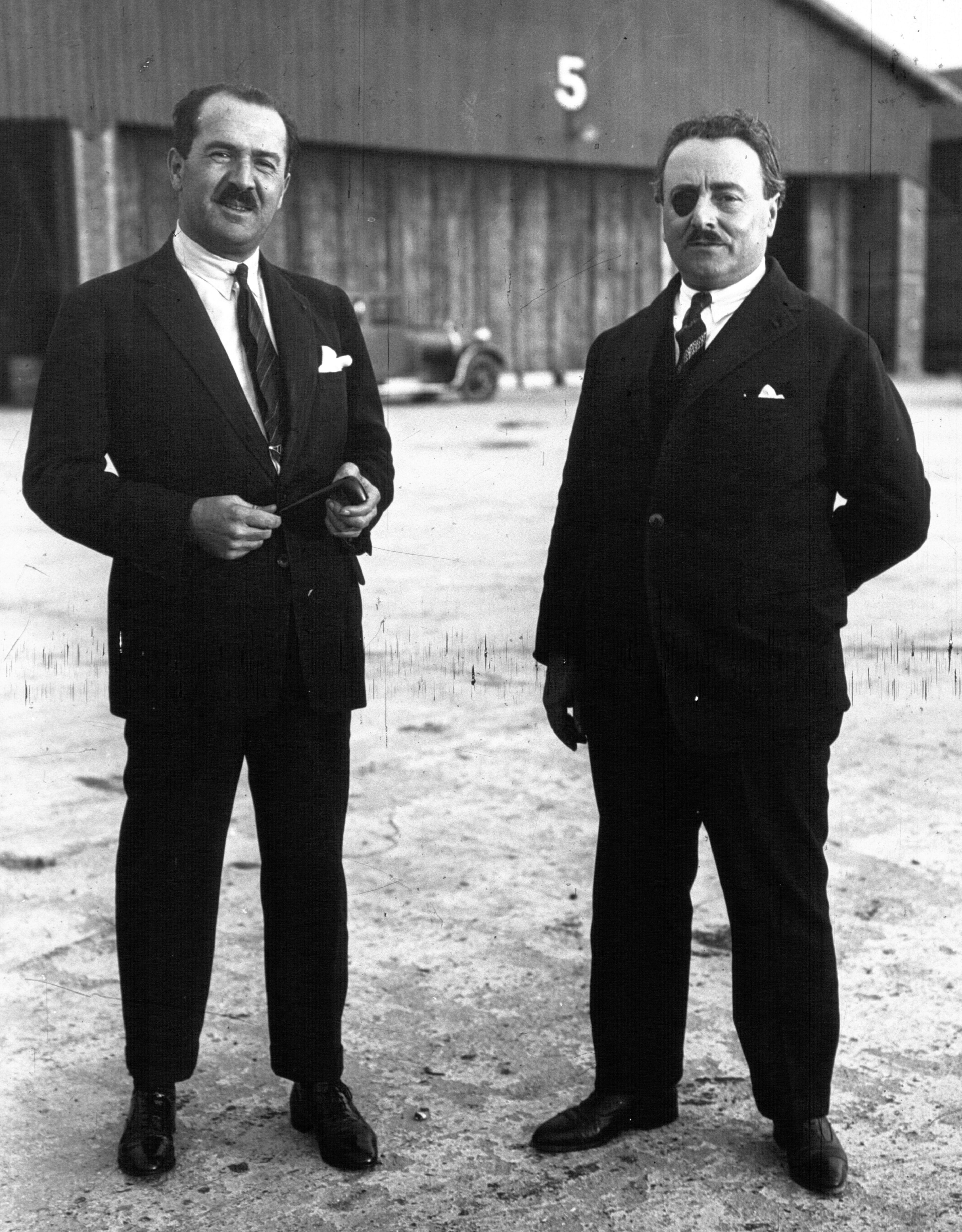 Left to right: French aviators Paul Tarascon (1882-1977) and François Coli (1881-1927).